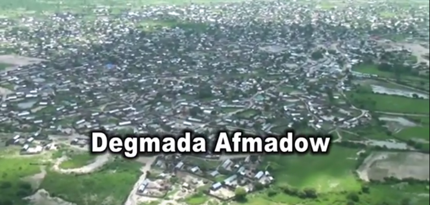 Sawir satelliteka ka qaaday degmada Afmadow